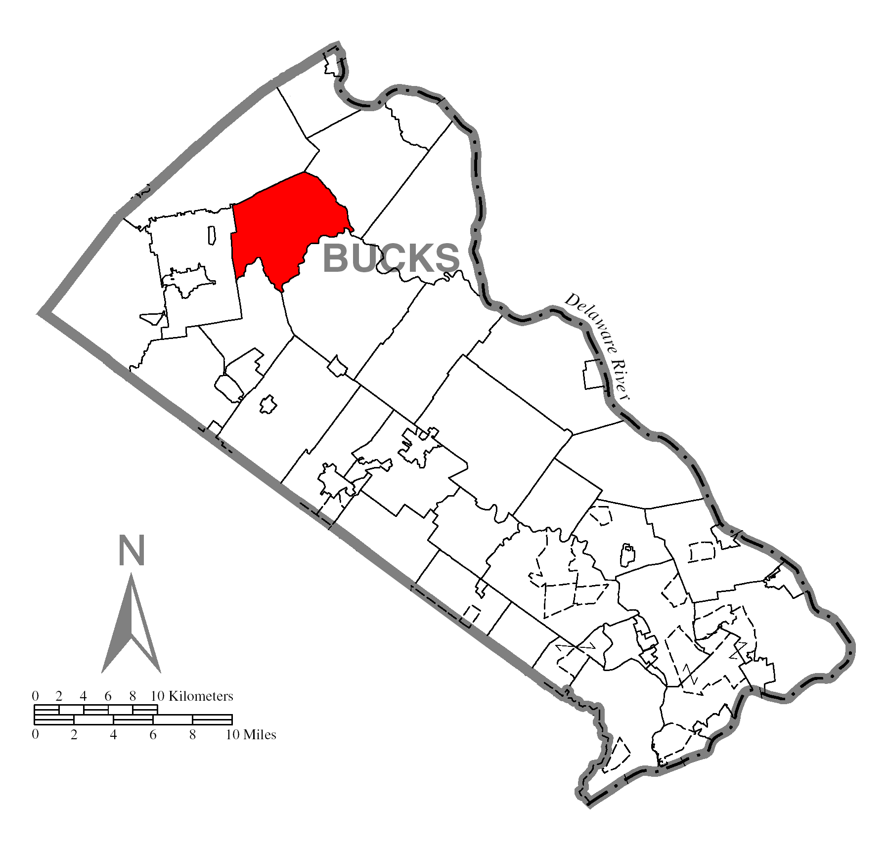 A map of Bucks County showing Haycock Township, Pennsylvania (alternate) highlighted on the map.